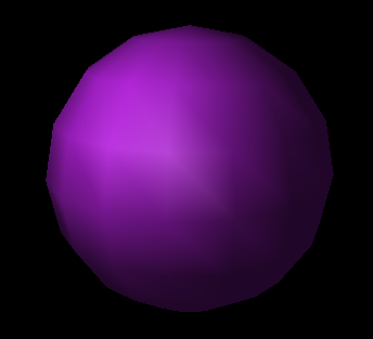 Gouraud shaded sphere. Rendered by Gergely Szelei (Gargaj / Conspiracy)